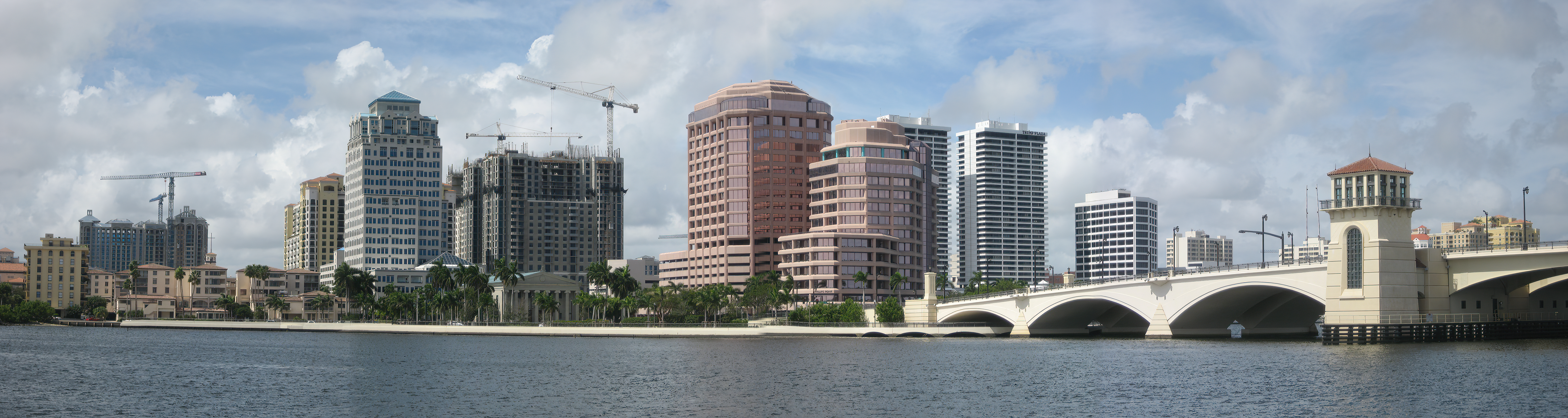 West Palm Beach Skyline as seen from Palm Beach, taken on October 06, 2007